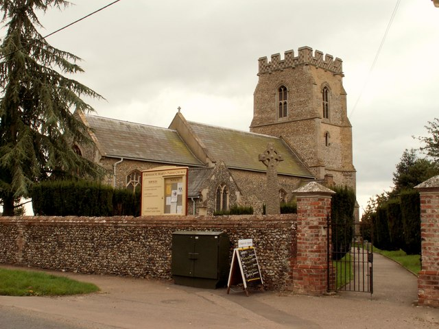 St. Martin; the parish church of Fornham St. Martin This church is mainly of the perpendicular style with a south aisle built in 1870. It stands by the side of the B.1106 that was once the main road to Thetford from Bury St. Edmunds.